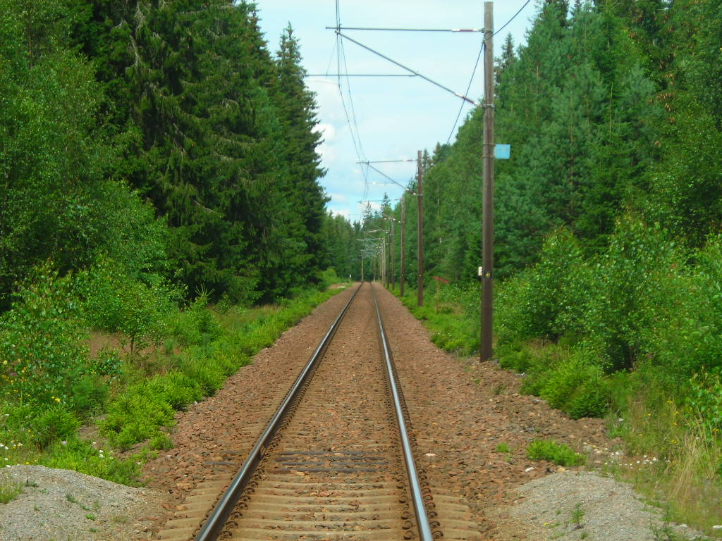 Railway at Bäckefors, Sweden